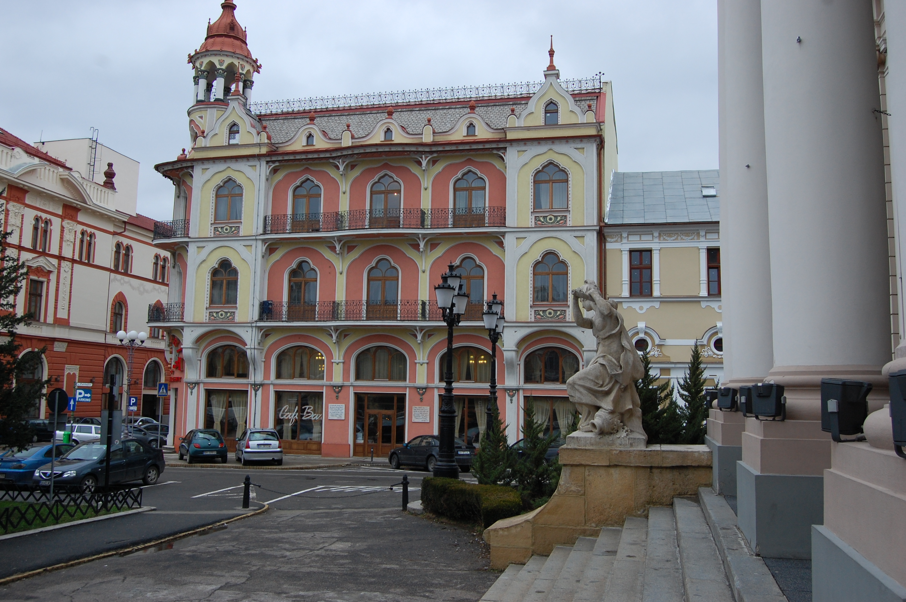 Building of the former EMKE cafe in Nagyvárad (now Oradea, Romania), the favorite place of the Hungarian poet Endre Ady.